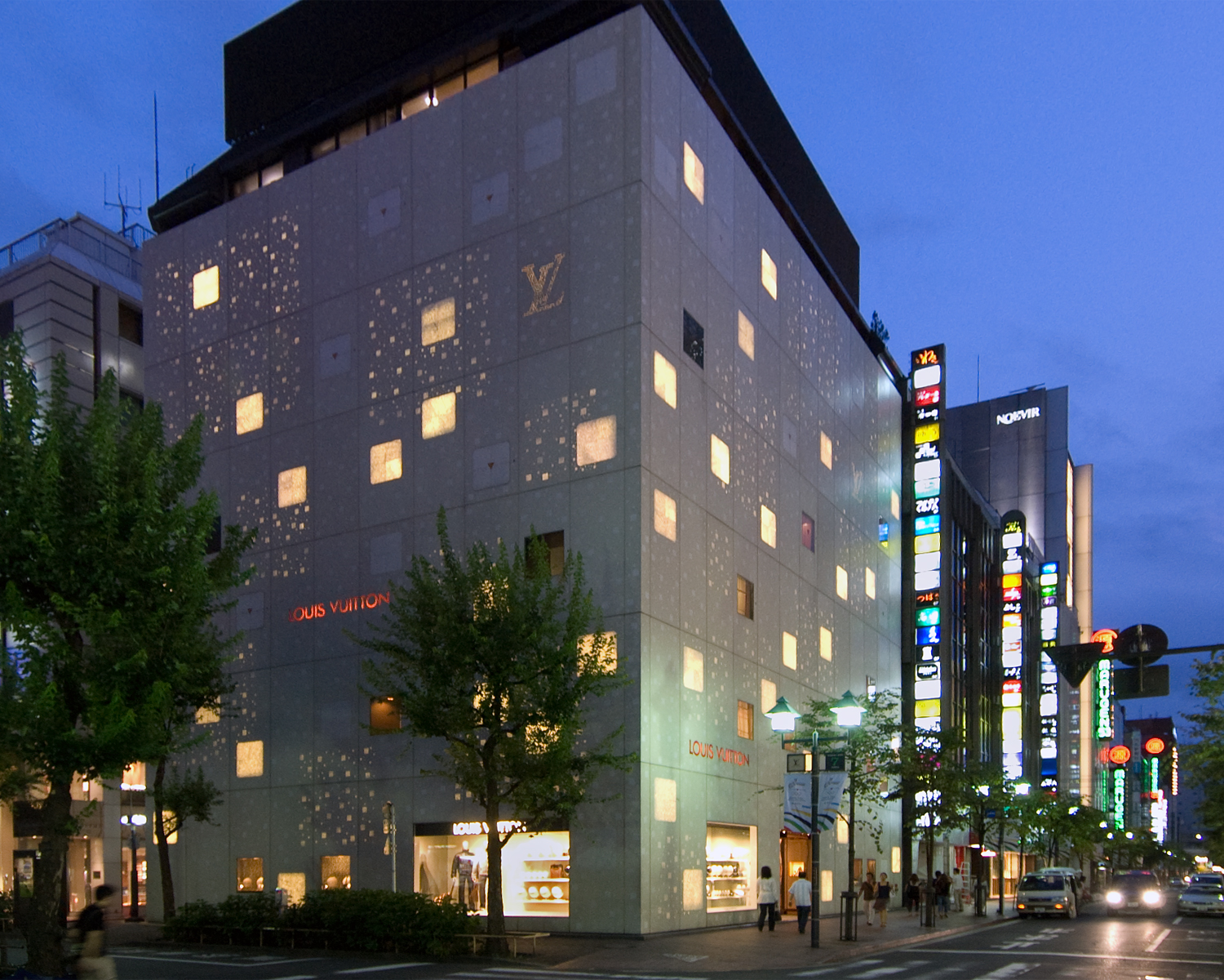 Louis Vuitton Ginza Namiki St. at Ginza Tokyo Japan.